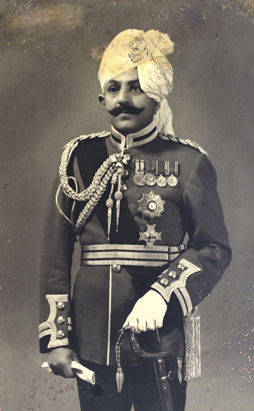 Taley Mohammed Khan Bahadur (1883, r. 1918 – 1957) was the Nawab of Palanpur and got educated privately at Palanpur, Bombay, and the Imperial Cadet Corps – Dehradun. He was honoured with a silver medal at Delhi durbar 1903 and 1911. His second wife was an Australian born lady Nee Joan Falkiner. She became Begum Jahanara and adopted the saree and all other customs.